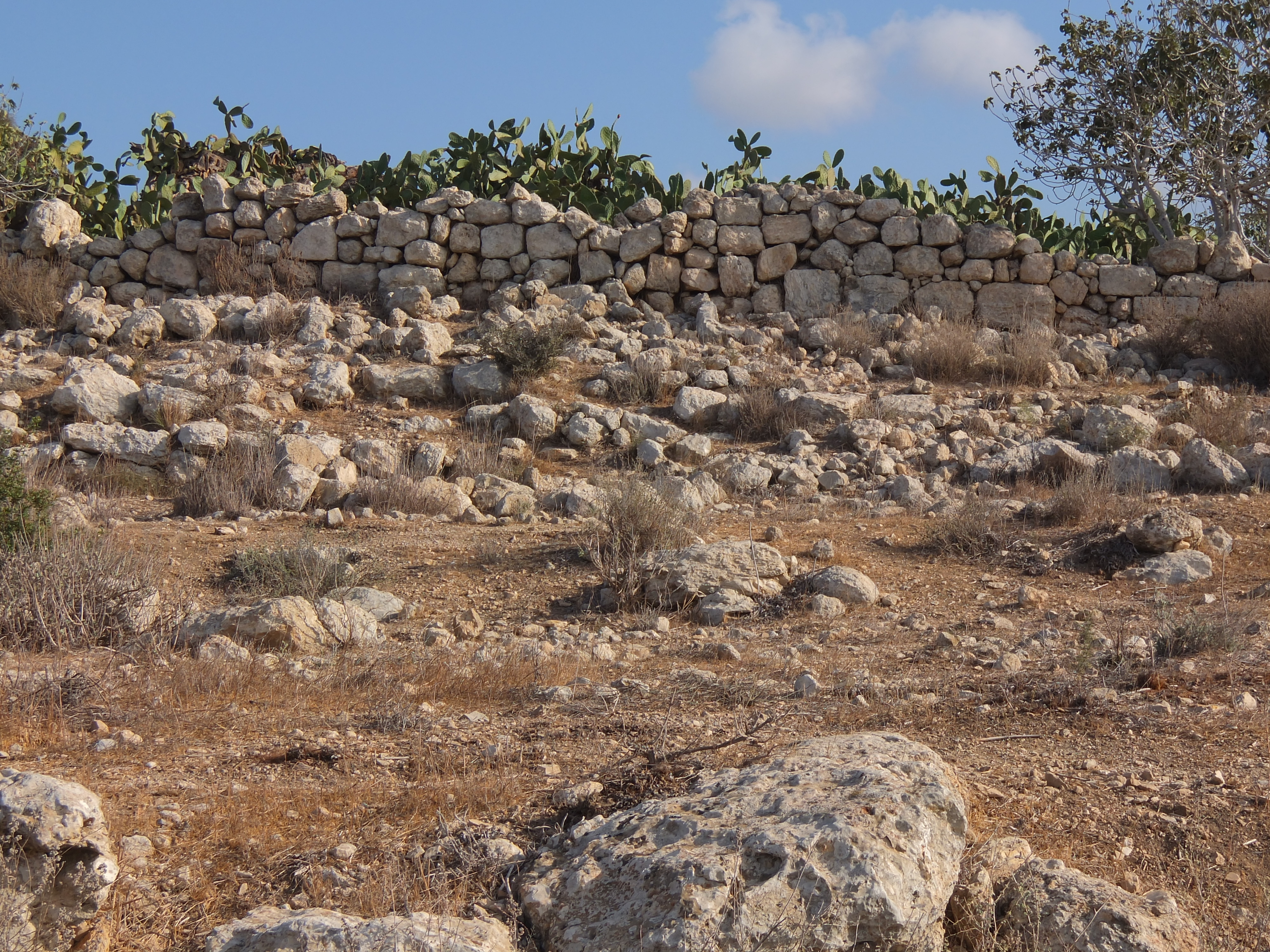 Walled structures at Rebbo Ruin